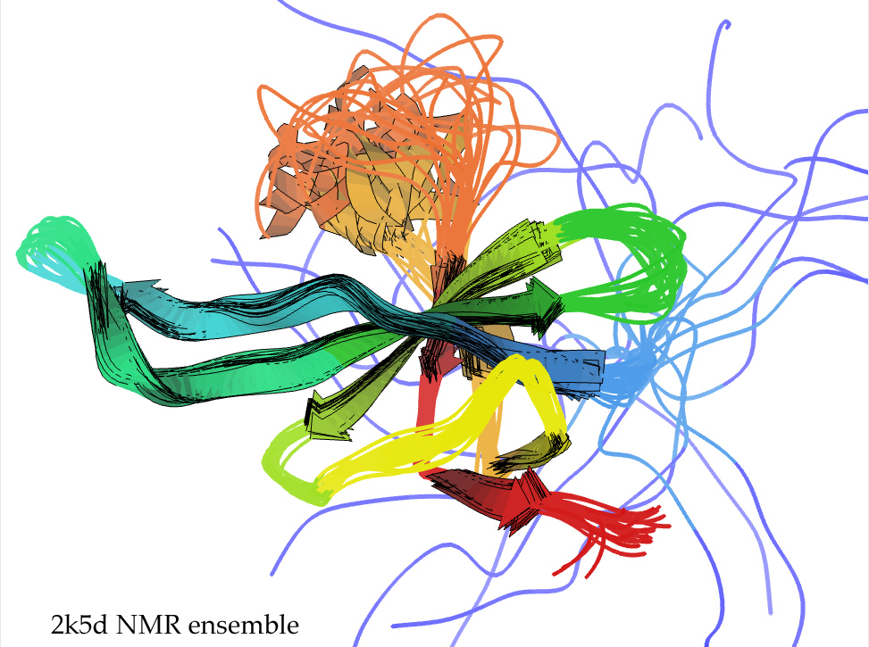 Multi-model ensemble of a protein structure solved by NMRat the NESG (PDB file 2K5D). Ribbons shown in KiNG.